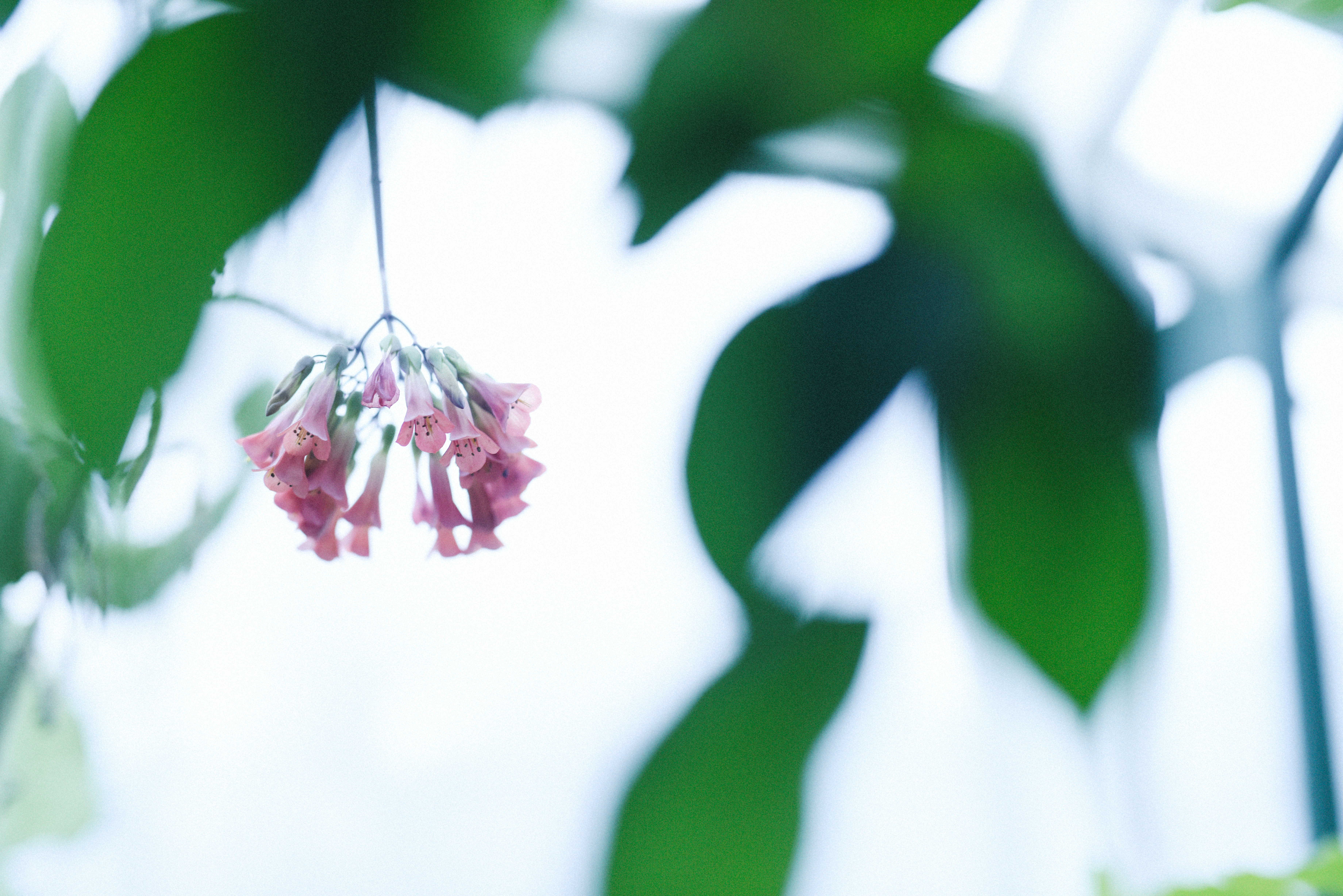 New Canaan Nature Center botany.